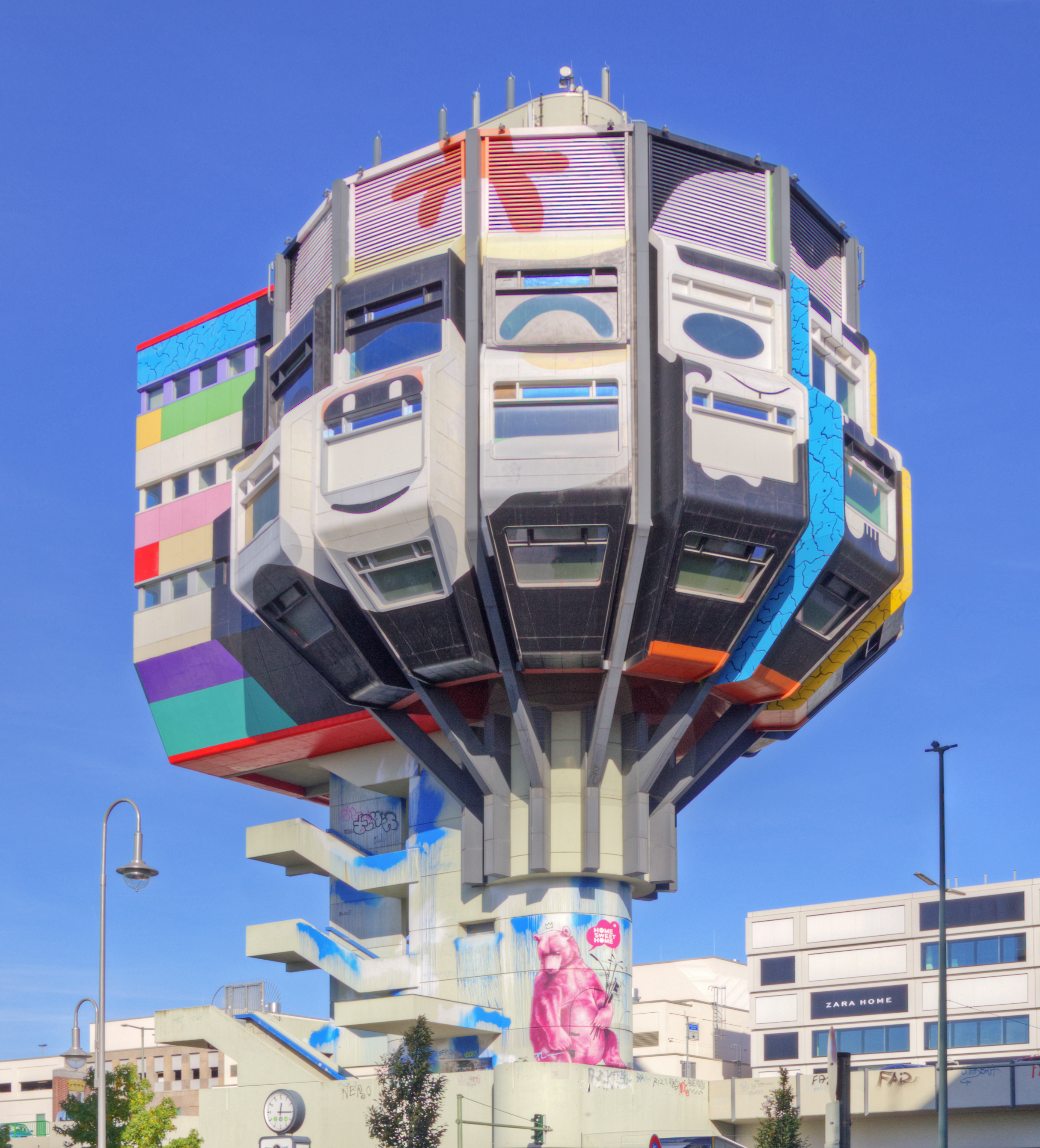 Berlin-Steglitz. Former „Bierpinsel“ restaurant, with graffiti on the facade.